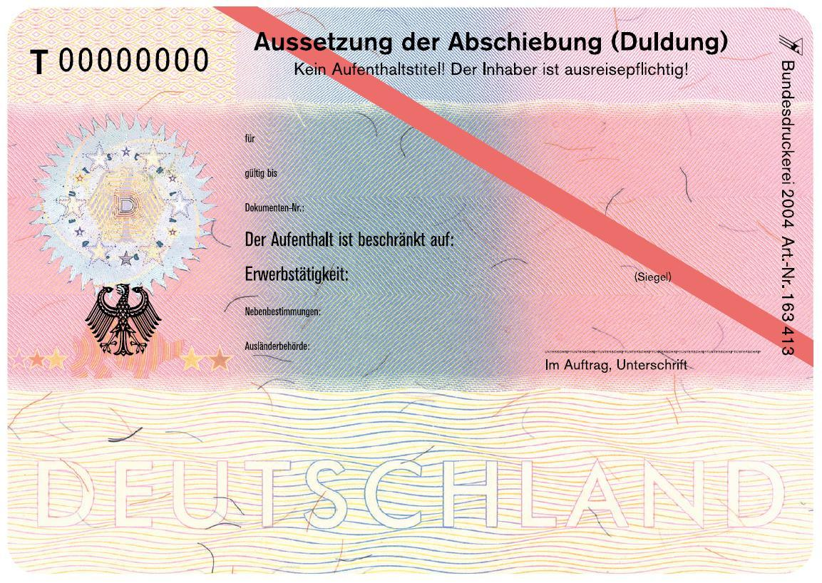 Suspension of deportation (sticker) for foreigners in Germany